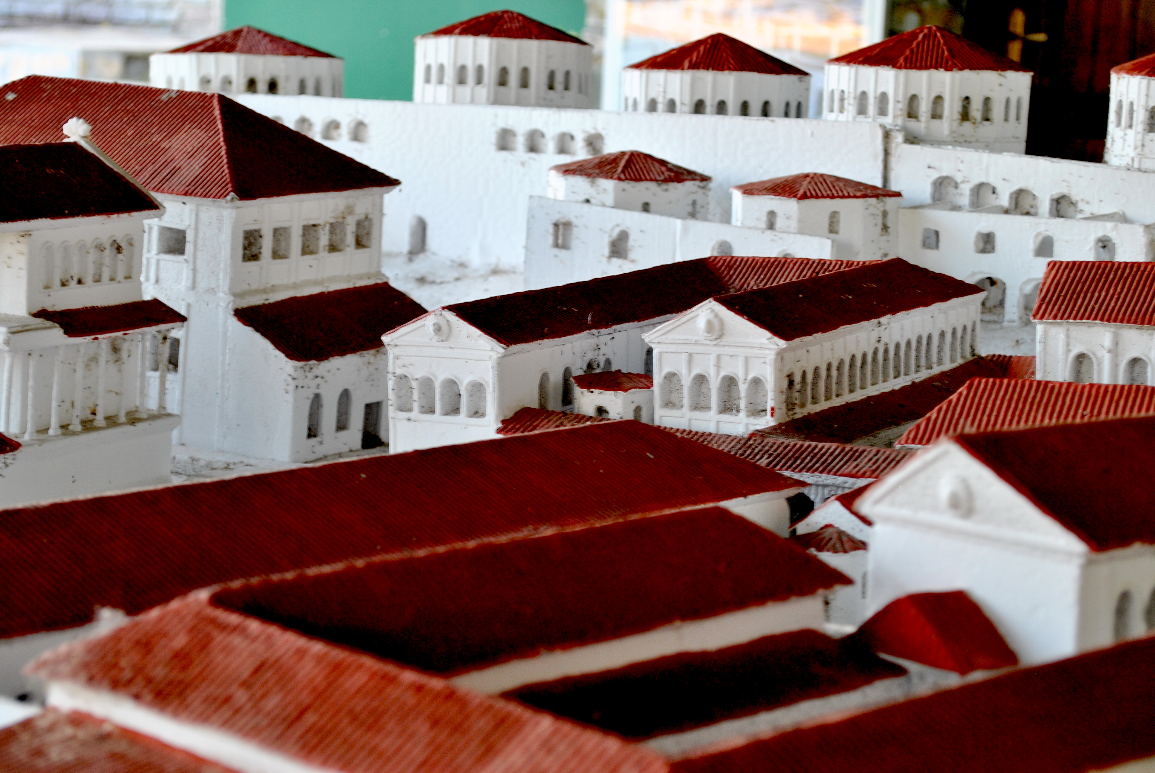 АН 40